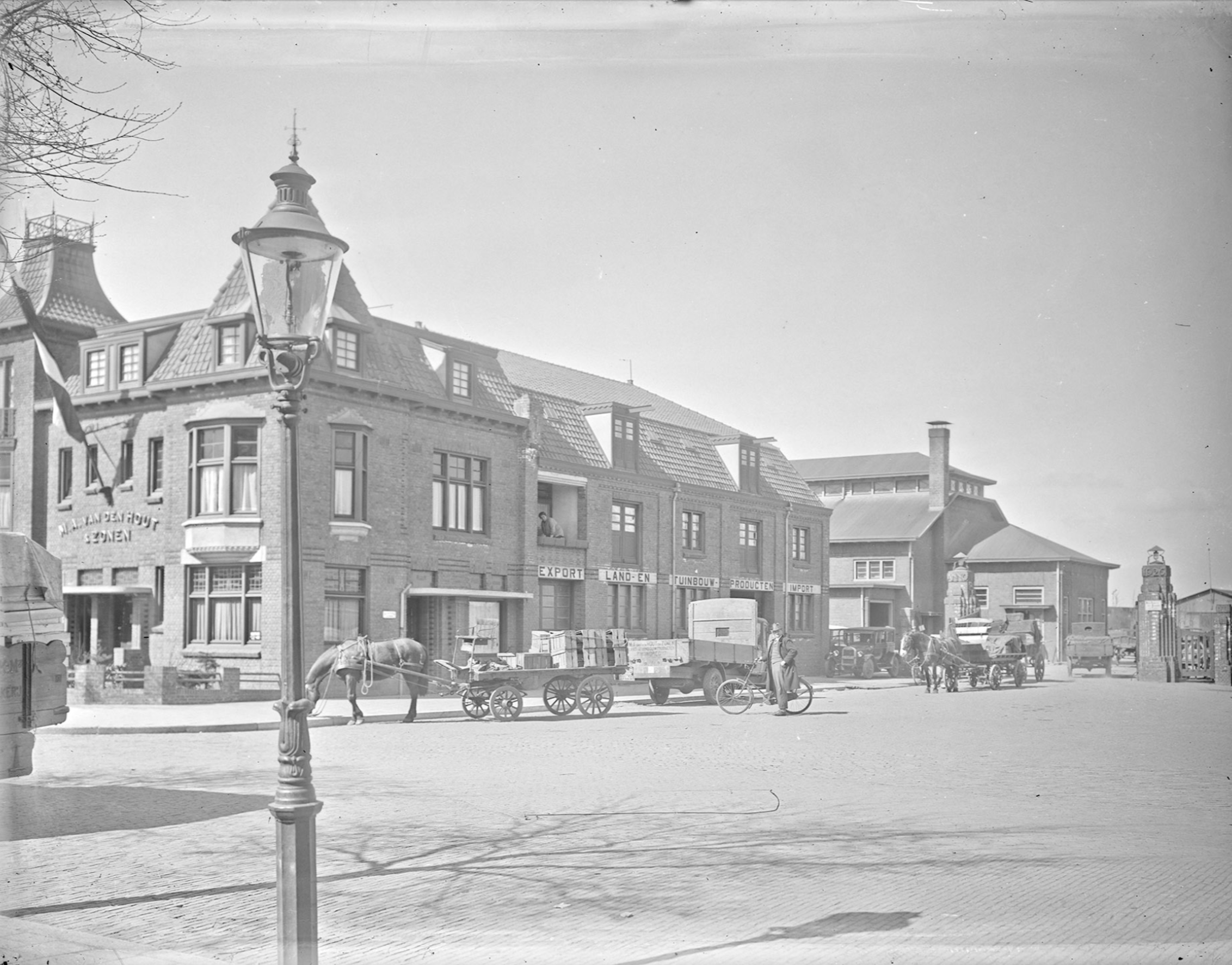 Former terrain of vegetable and fruit auction in Zwijndrecht around 1927. In the front the office of export company M.A. van den Hout & Zonen N.V. (M.A. van den Hout & Sons N.V.).